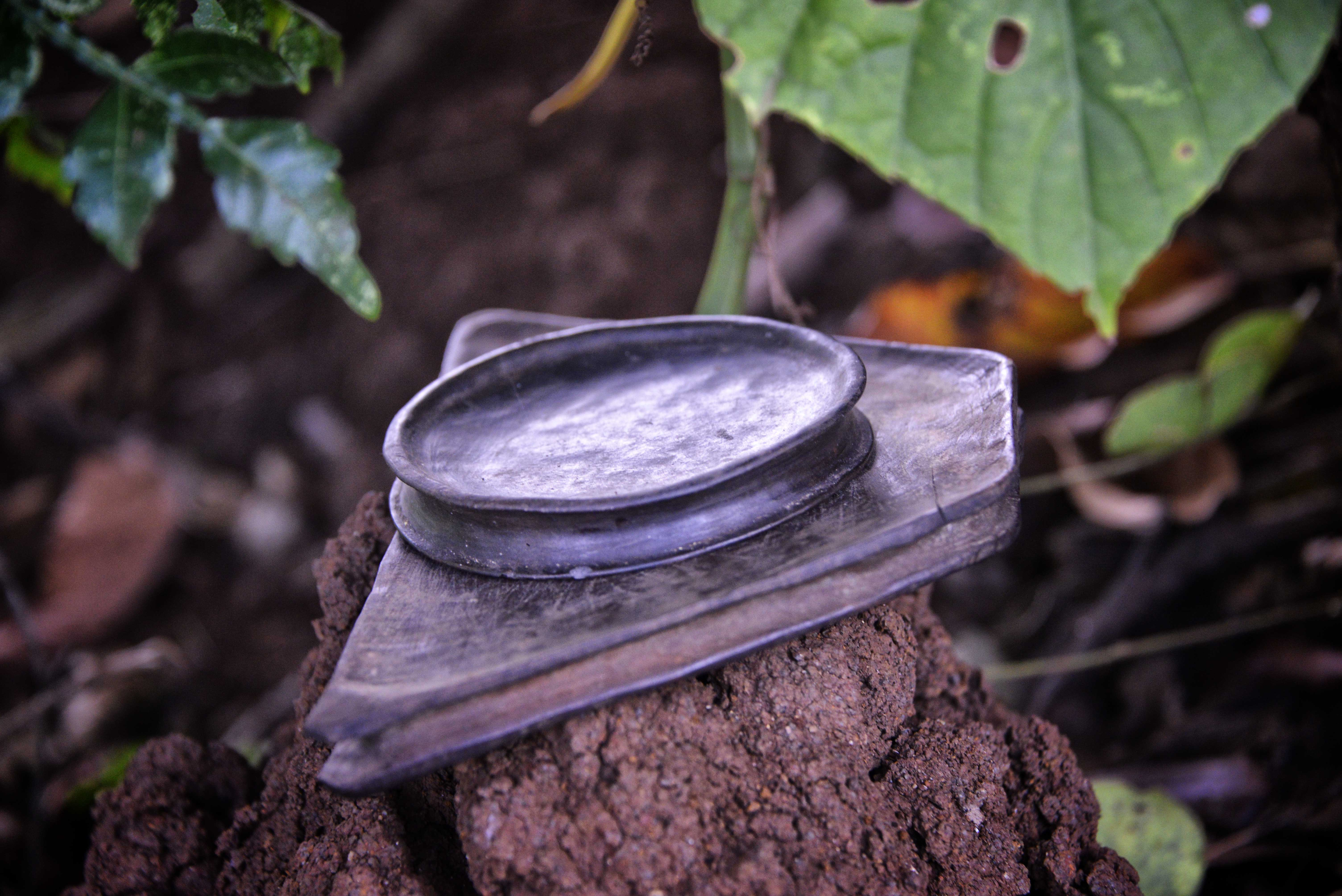 Made from fired clay